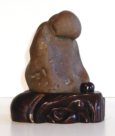 suiseki con forma humana (sugata-ishi)